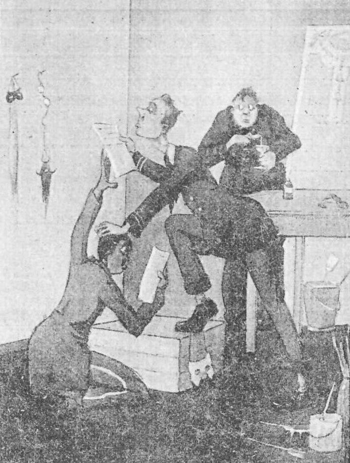 Cartoon by James Whale of theatrical rehearsals in Holzminden prisoner-of-war camp: published in Wide World Magazine, vol. 43 (1919), p. 318